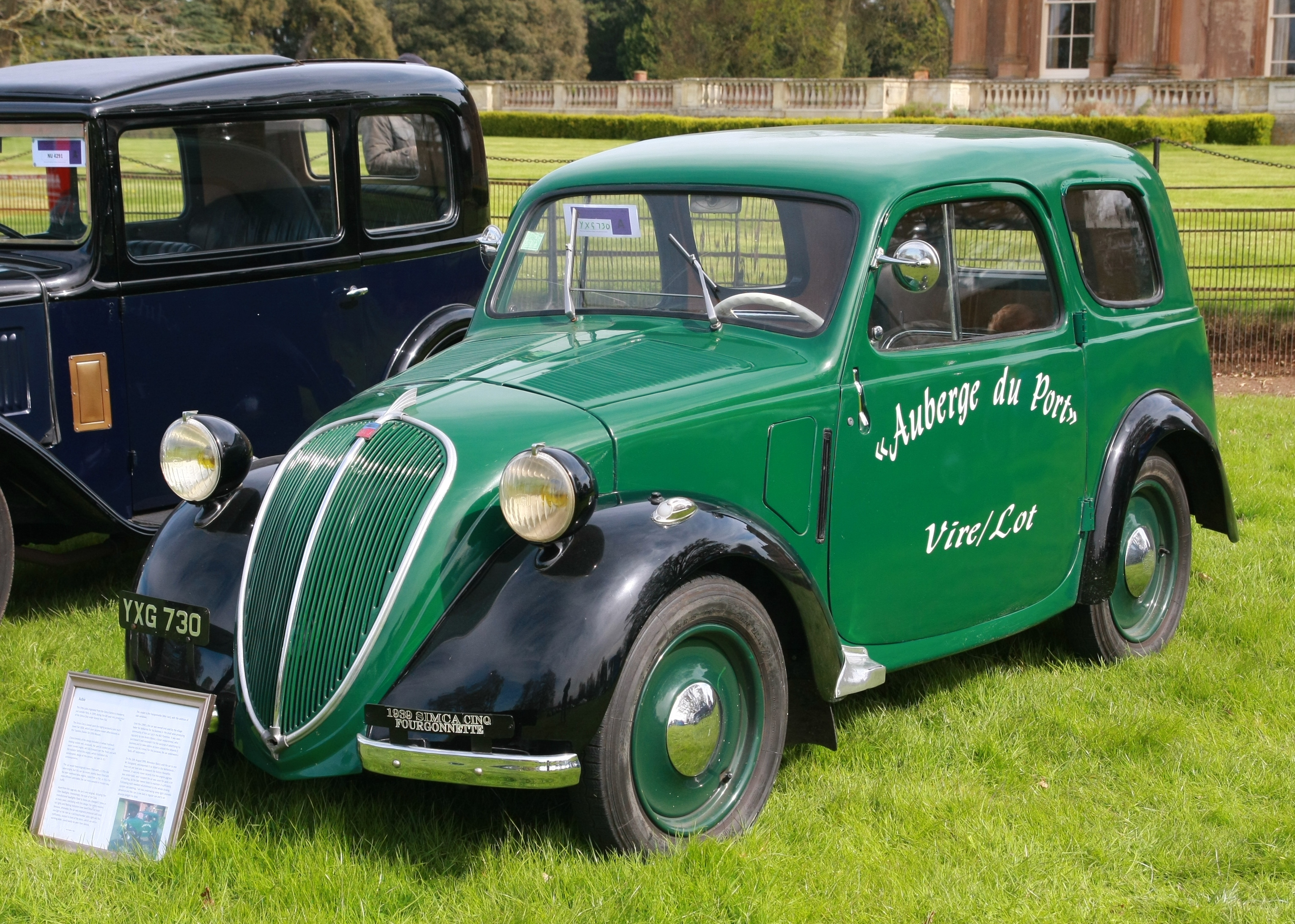 Simca 5 Fourgonette provenance Lot (F) at Turvey (GB)